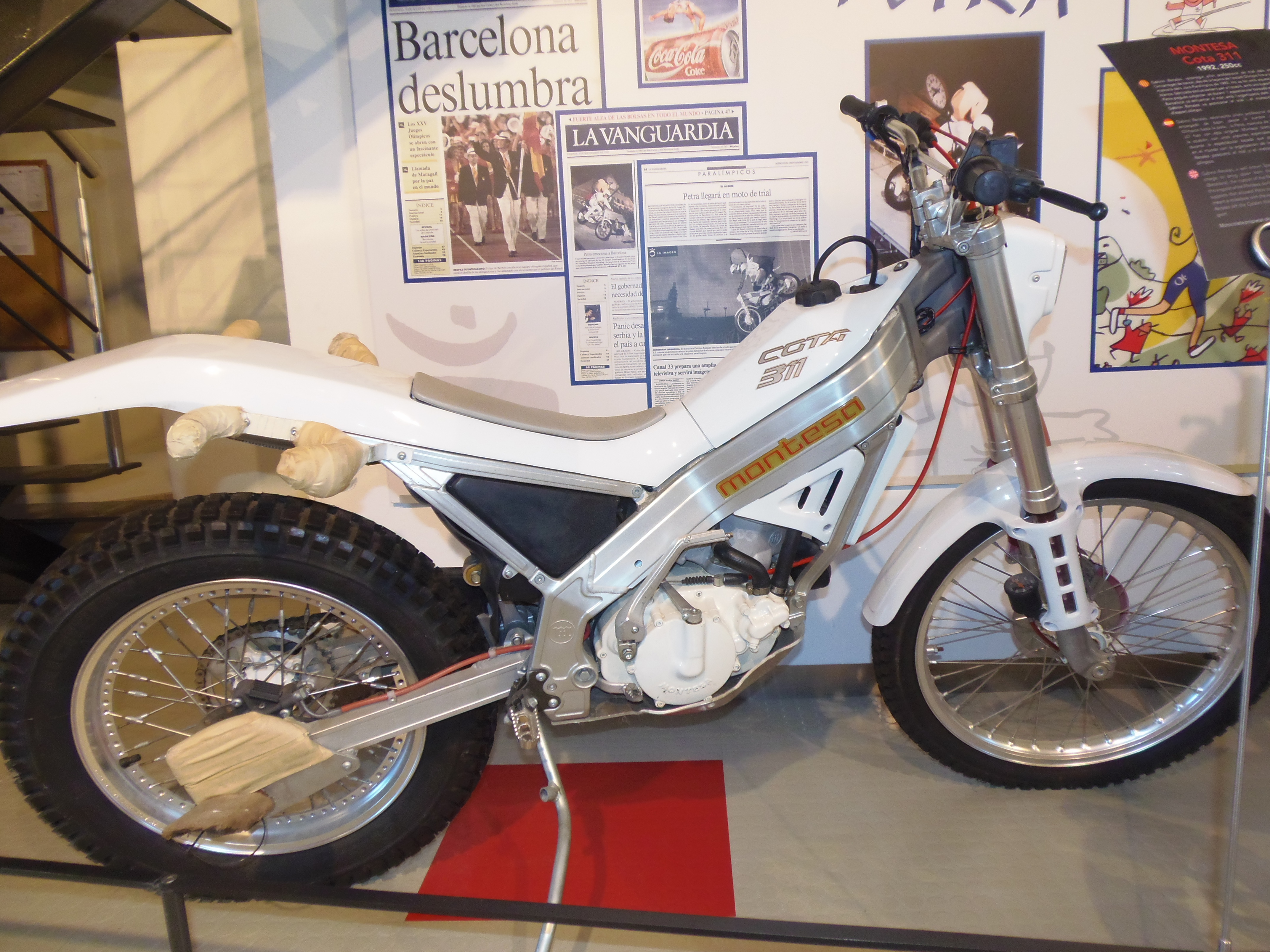 Gabino Renales rode this Montesa Cota 311 (250 cc) at the opening ceremony of the Barcelona Summer Paralympics in 1992. He carried back the mascot of the games, Petra.